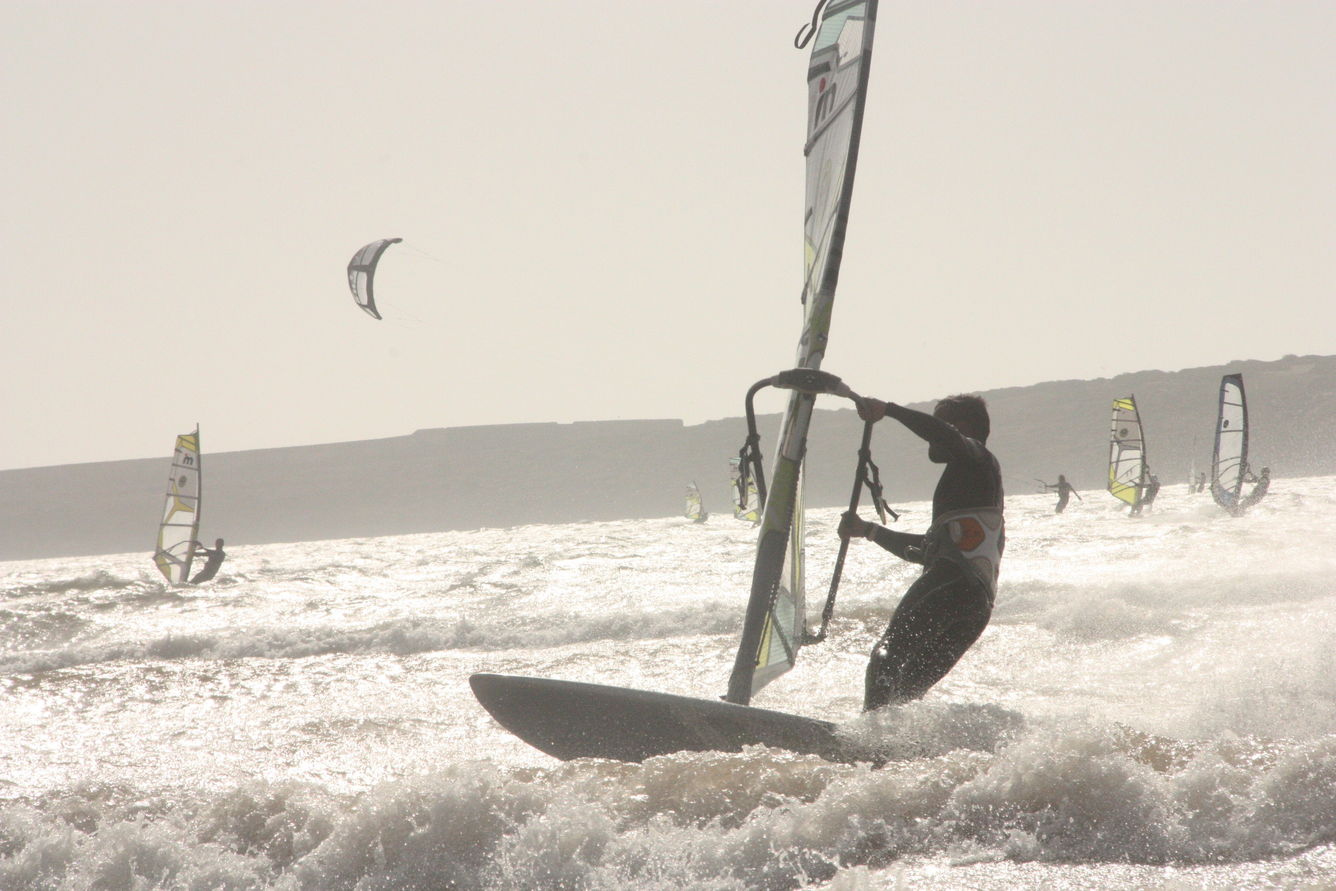 Surfers at Essaouira, Morocco. Shot from "beach and friends" cafe.